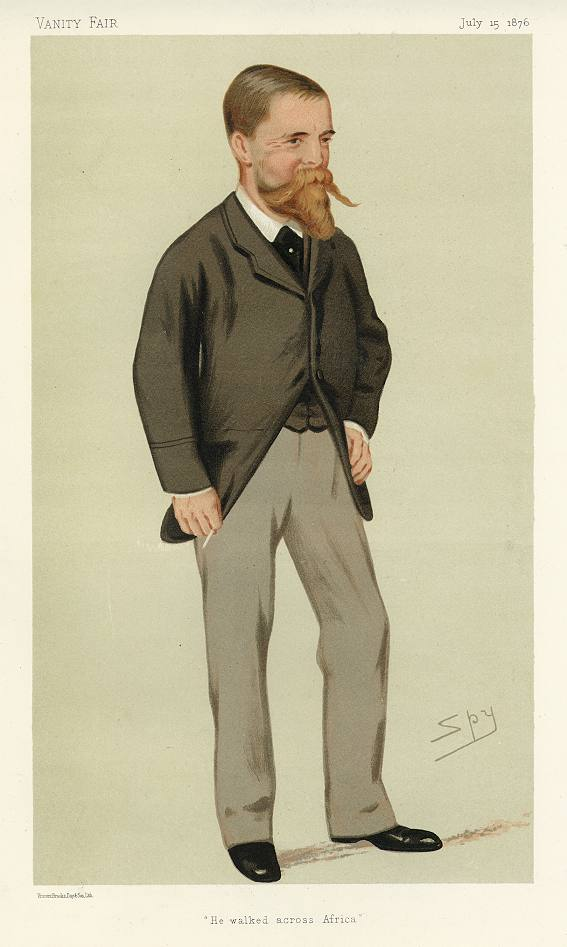 Caricature nof Lieutenant Verney Lovett Cameron R.N. (1844-1894). Caption read "He walked across Africa".